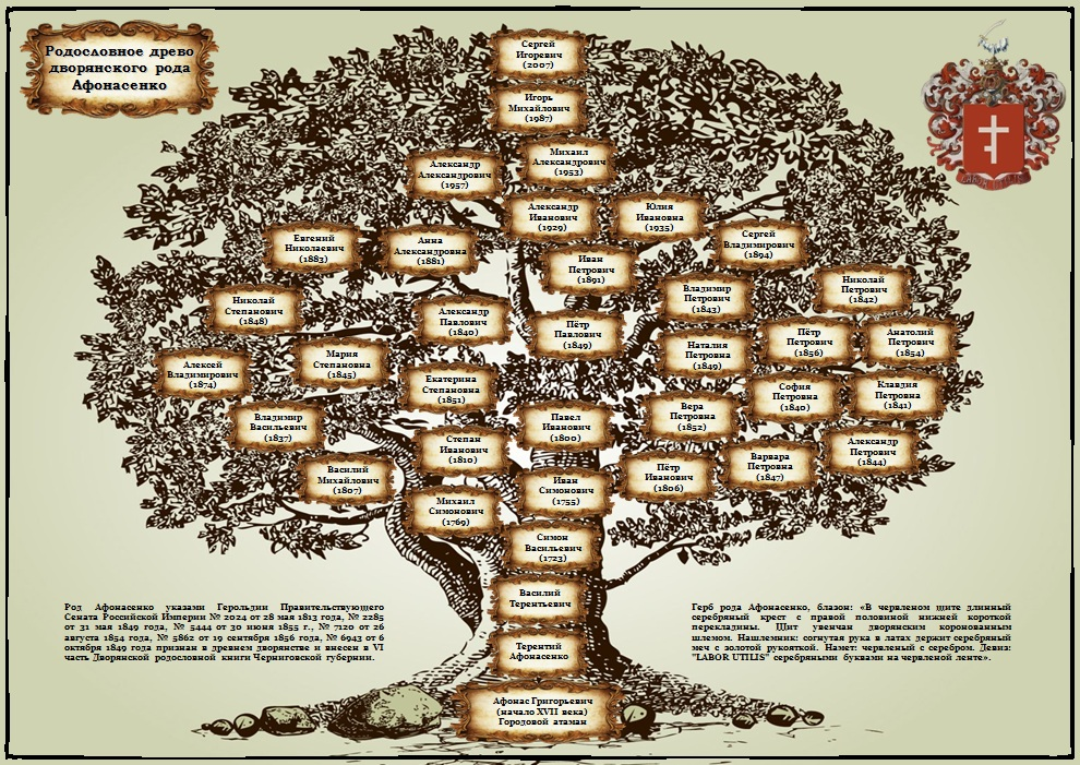 Geneological tree Afonasenko